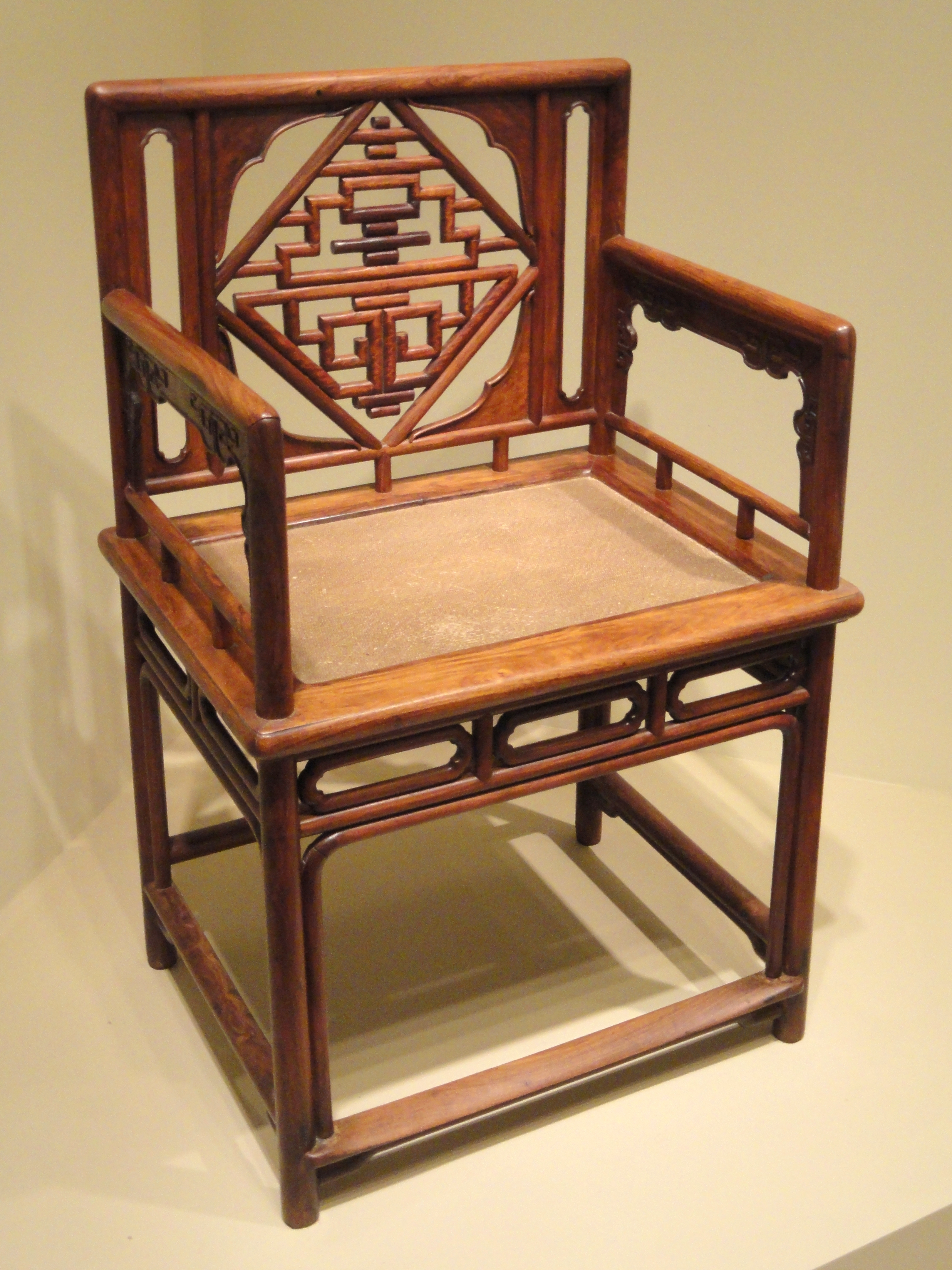 Exhibit in the Arthur M. Sackler Gallery, Washington, DC, USA. This artwork is old enough so that it is in the public domain.